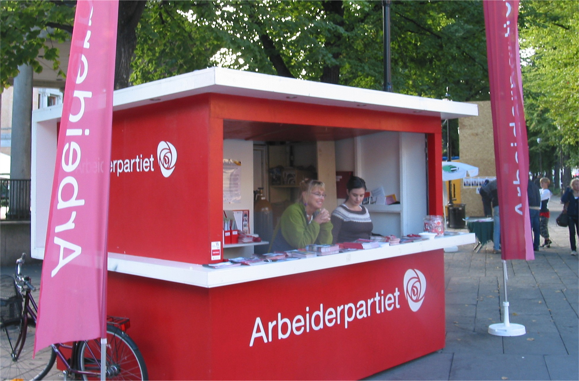 Booth of the Norwegian Labour Party (Arbeiderpartiet) during the campaign before the Norwegian local elections, 2007. Karl Johan's street, Oslo, July 2007.